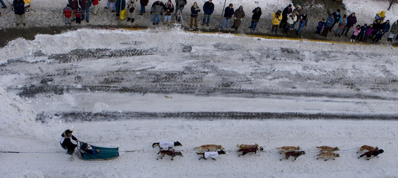 Iditarod 2006 at Anchorage Offical start. Musher Hugh Neff. 2006 Iditarod